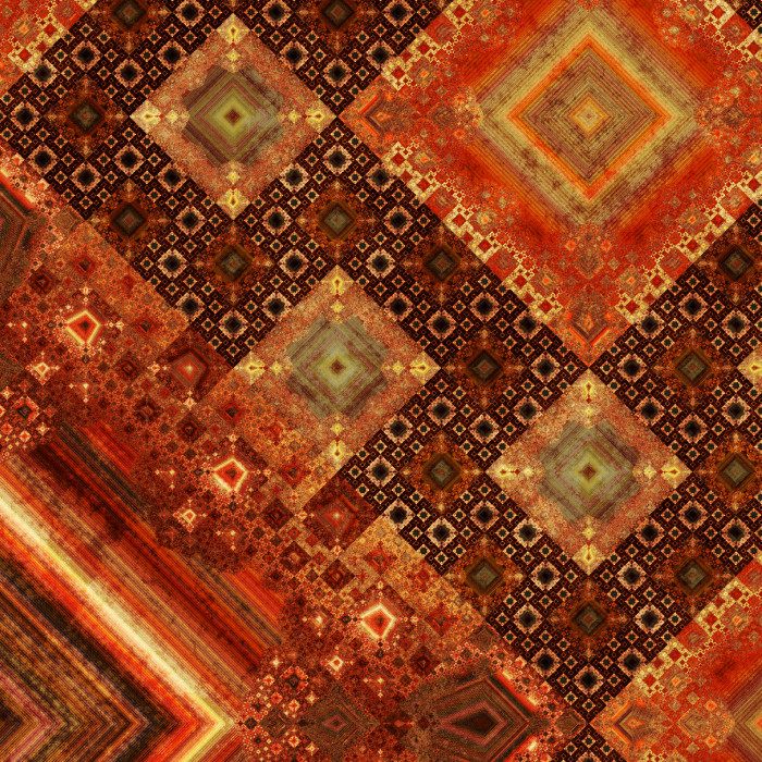 Low-resolution detail of an art work by Samuel Monnier. Inspired by the Fibonacci word fractal. Orginal owned by Alexis Monnerot-Dumaine.